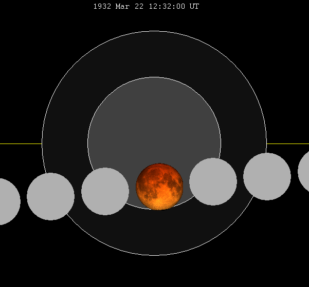 March 1932 lunar eclipse chart of moon's total lunar eclipse path through the earth's shadow. thumb